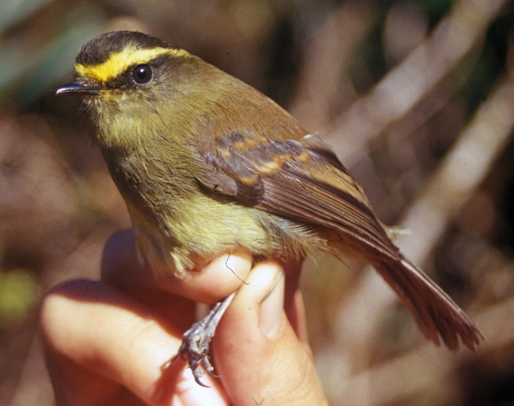 Yellow-bellied Chat-tyrant (Ochthoeca diadema) from Ecuador